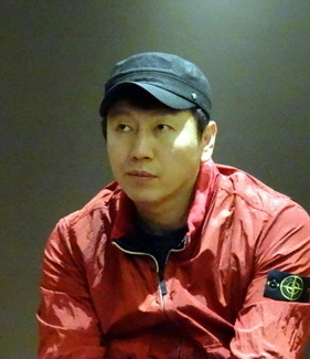 Kim Soo-ro on Oct 23, 2014